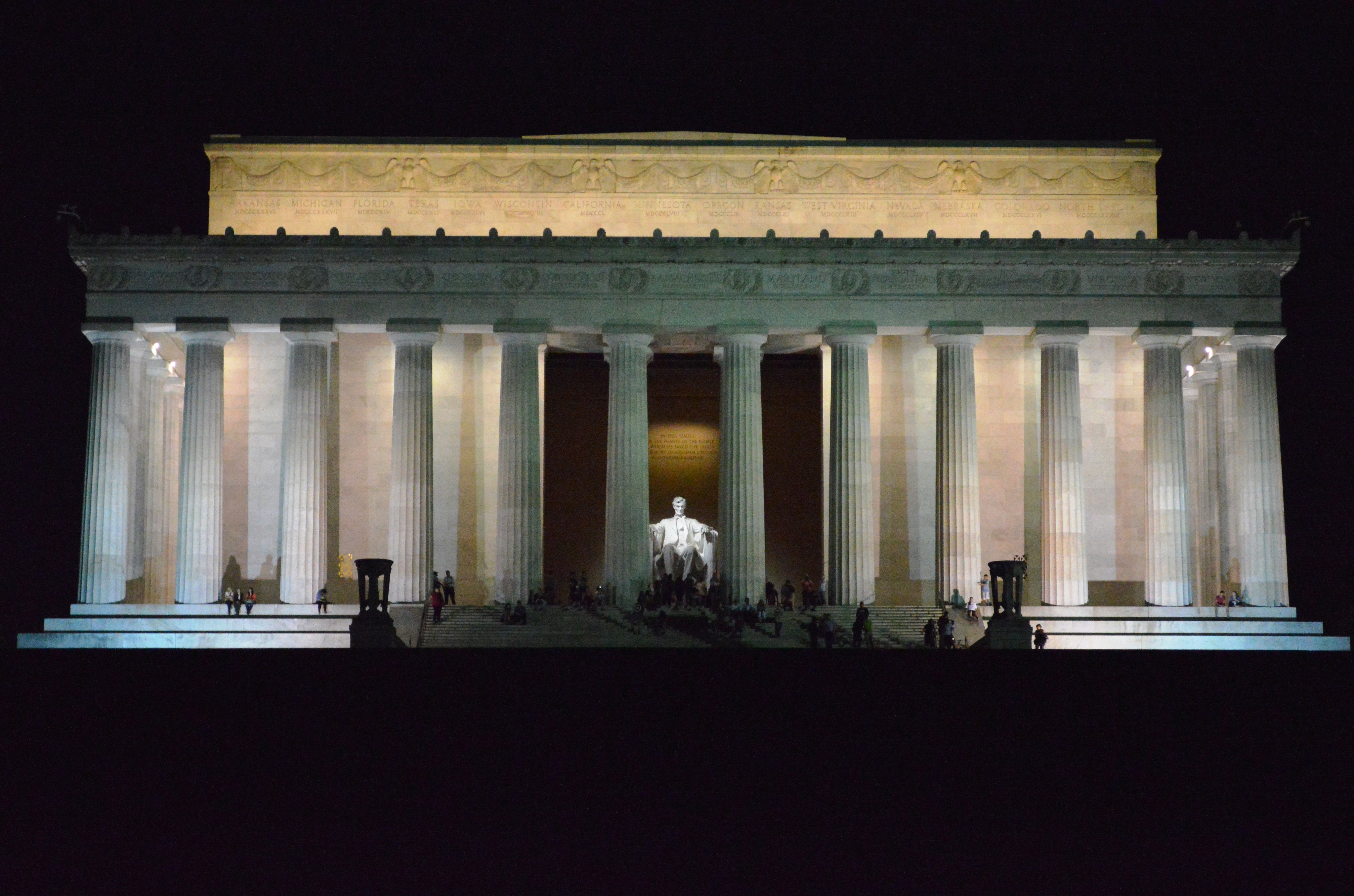 On the steps of the Lincoln Memorial